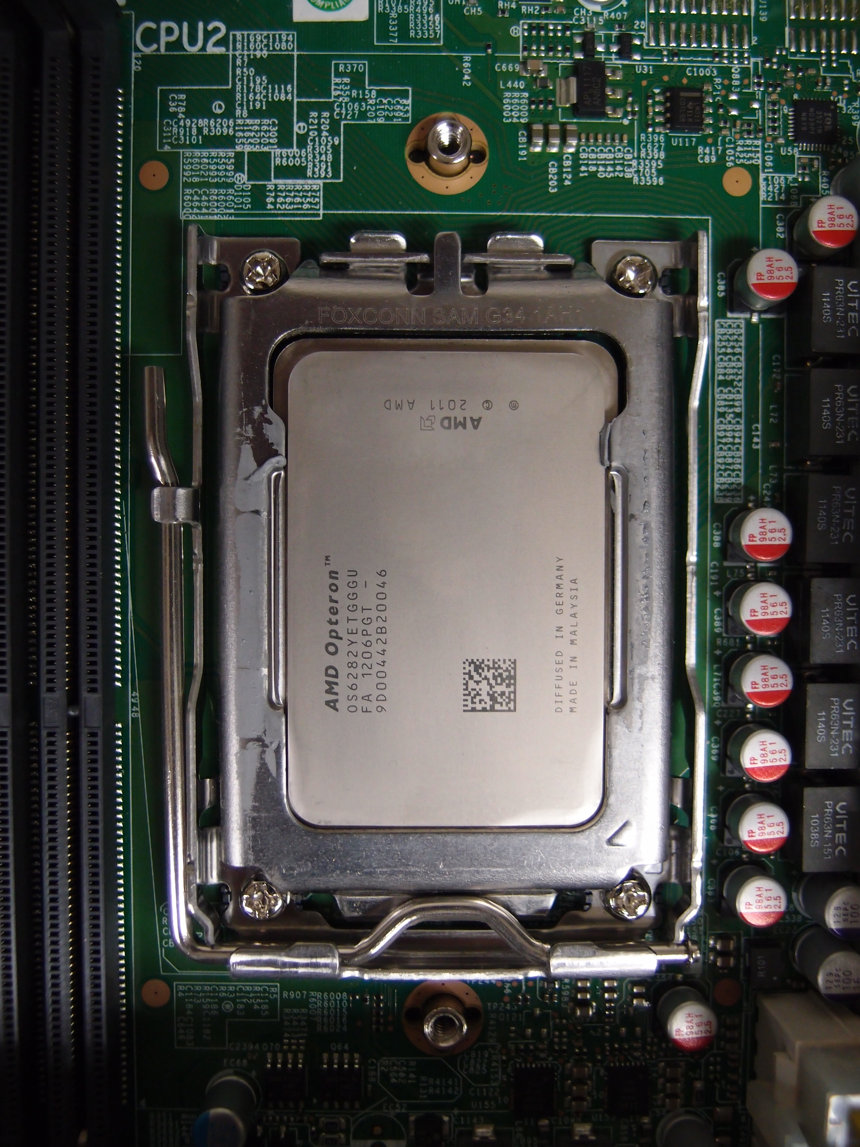 AMD Opteron 6282SE on socket